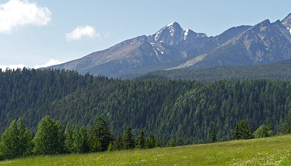 East Face of Krivan